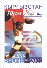 Stamp of Kyrgyzstan